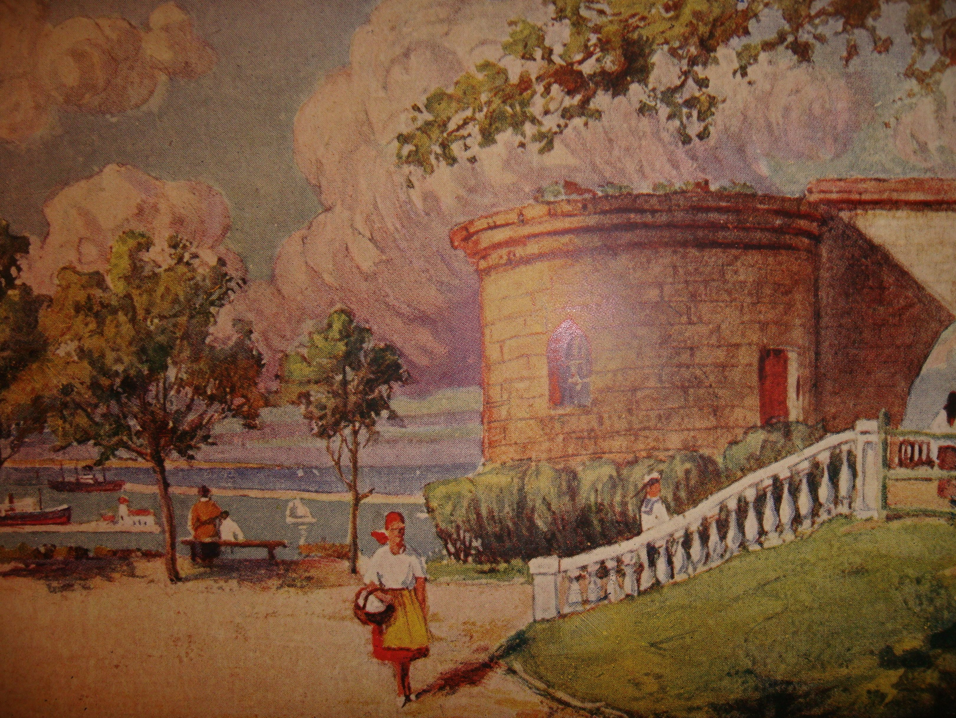 Old Carte Postale with view of Alexander Park in Odessa, USSR